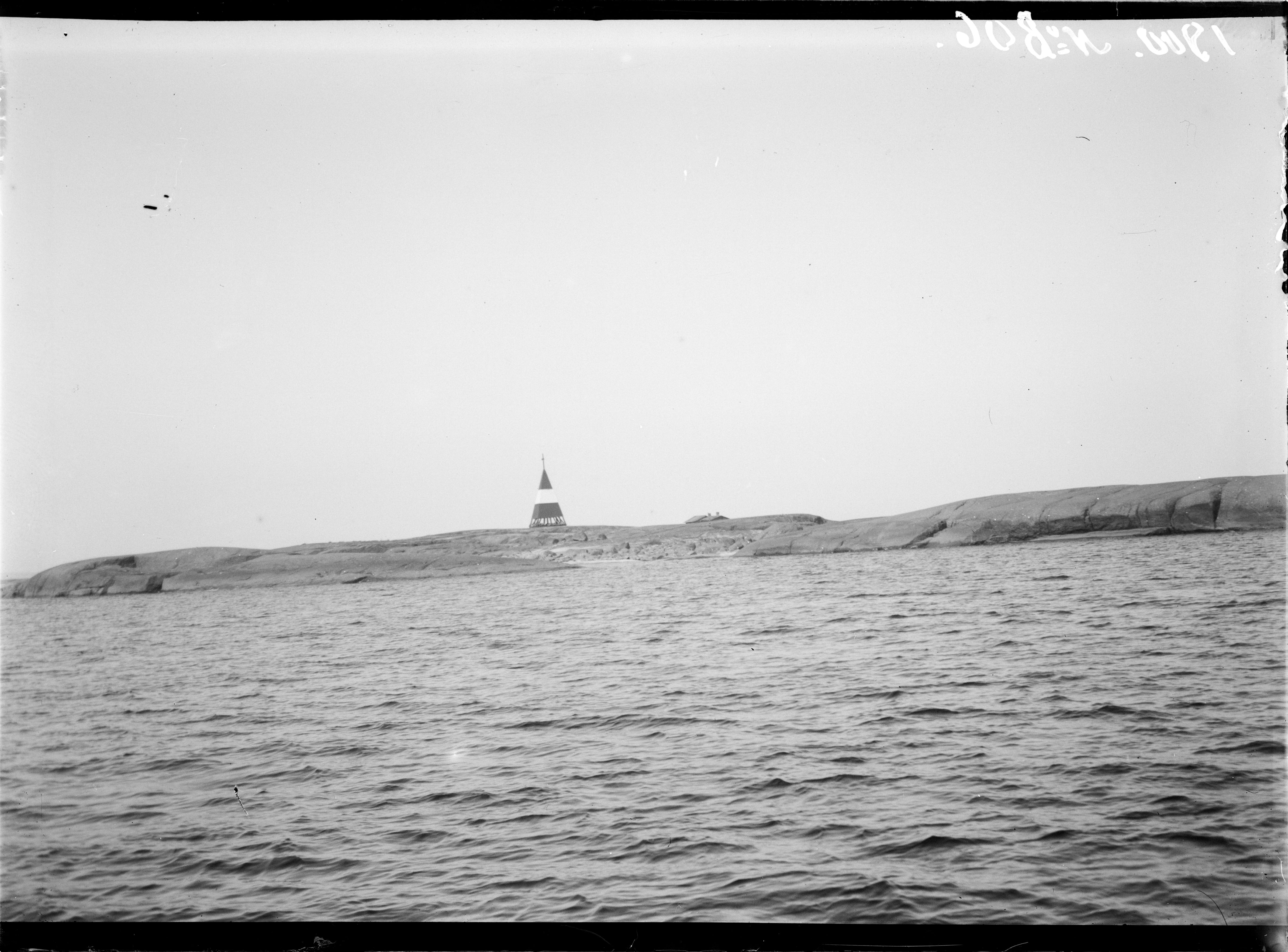 Records creator: Luotsi- ja majakkalaitos, \nArchive/Fond: Luotsi- ja majakkalaitoksen arkisto, \nSeries: Merimerkit, \nUnit: Uabb:306 Huovari (HovÃ¶rs); tunnusmajakka kalliosaarella, \nInclusive dates: 0 - 0\n